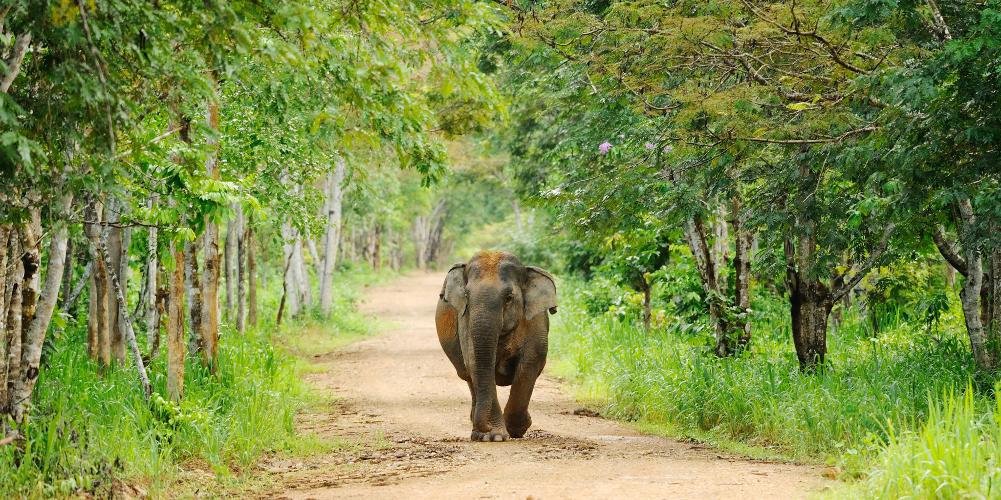 Asian Elephant (Elephas maximus) in Kui Buri national park, Thailand. Walking on a dirt road lined by trees. This photo is published under the Creative Commons Attribution-Share-Alike Licence. You are free to use this image, as long as it is shared with attribution under the same licence together with the appropriate credits: By: Tontan Travel Link